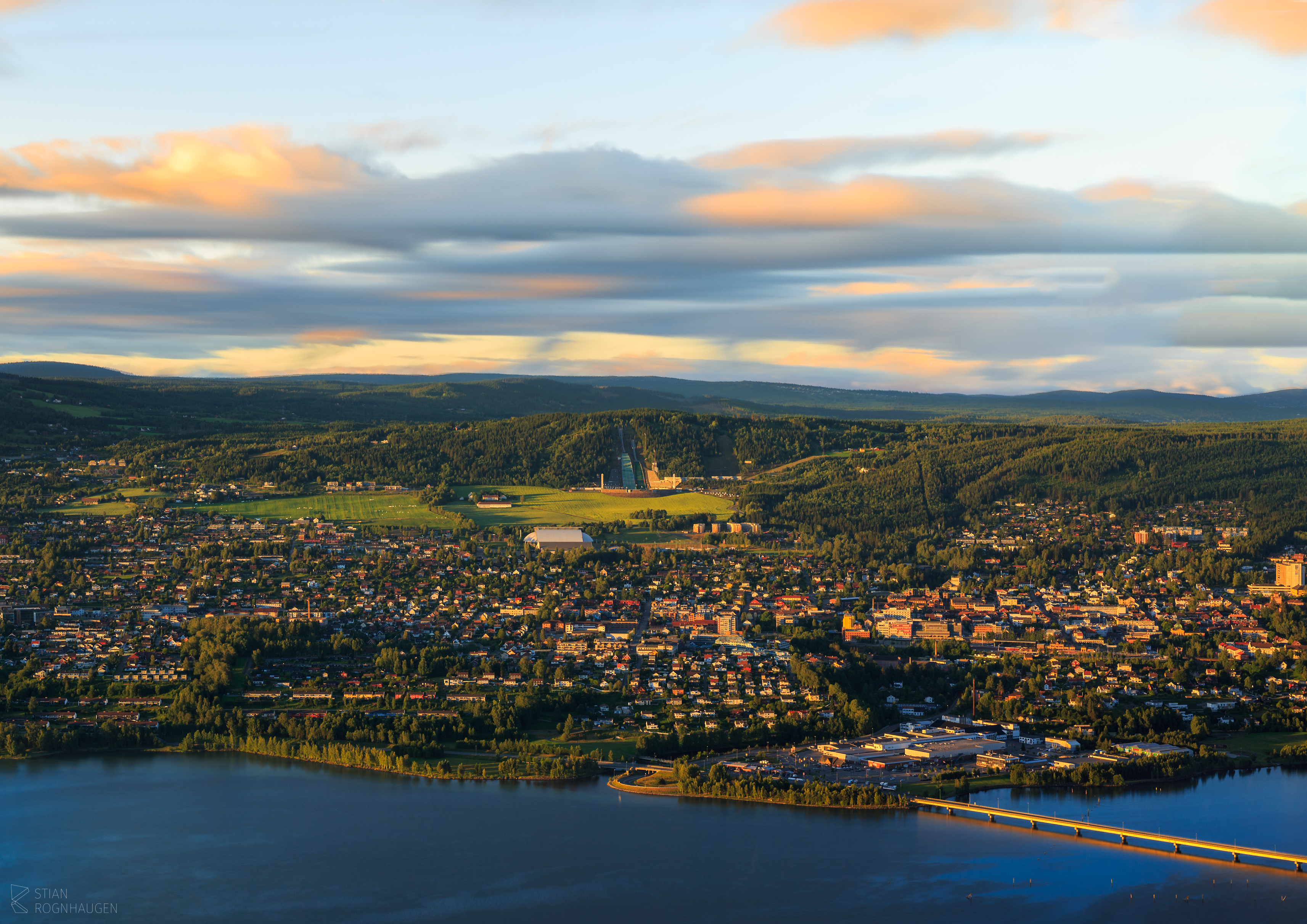 Image of Lillehammer city in Oppland, Norway